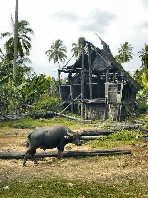 Water buffalo in Sumatra, Indonesia.